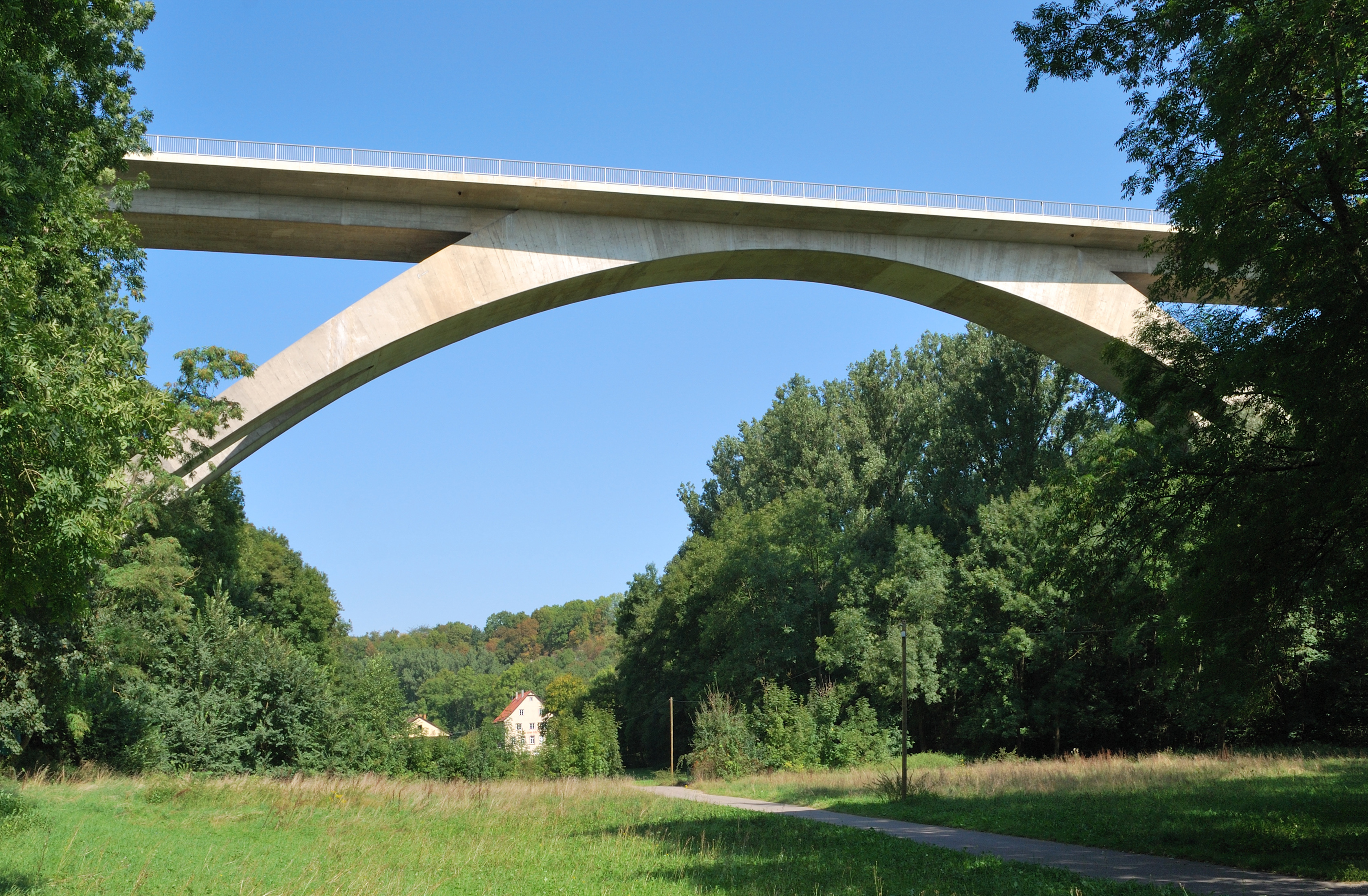 Viaduct of the German national road B10 over the valley of the river Glems nearby Schwieberdingen in Baden-Württemberg in Germany.